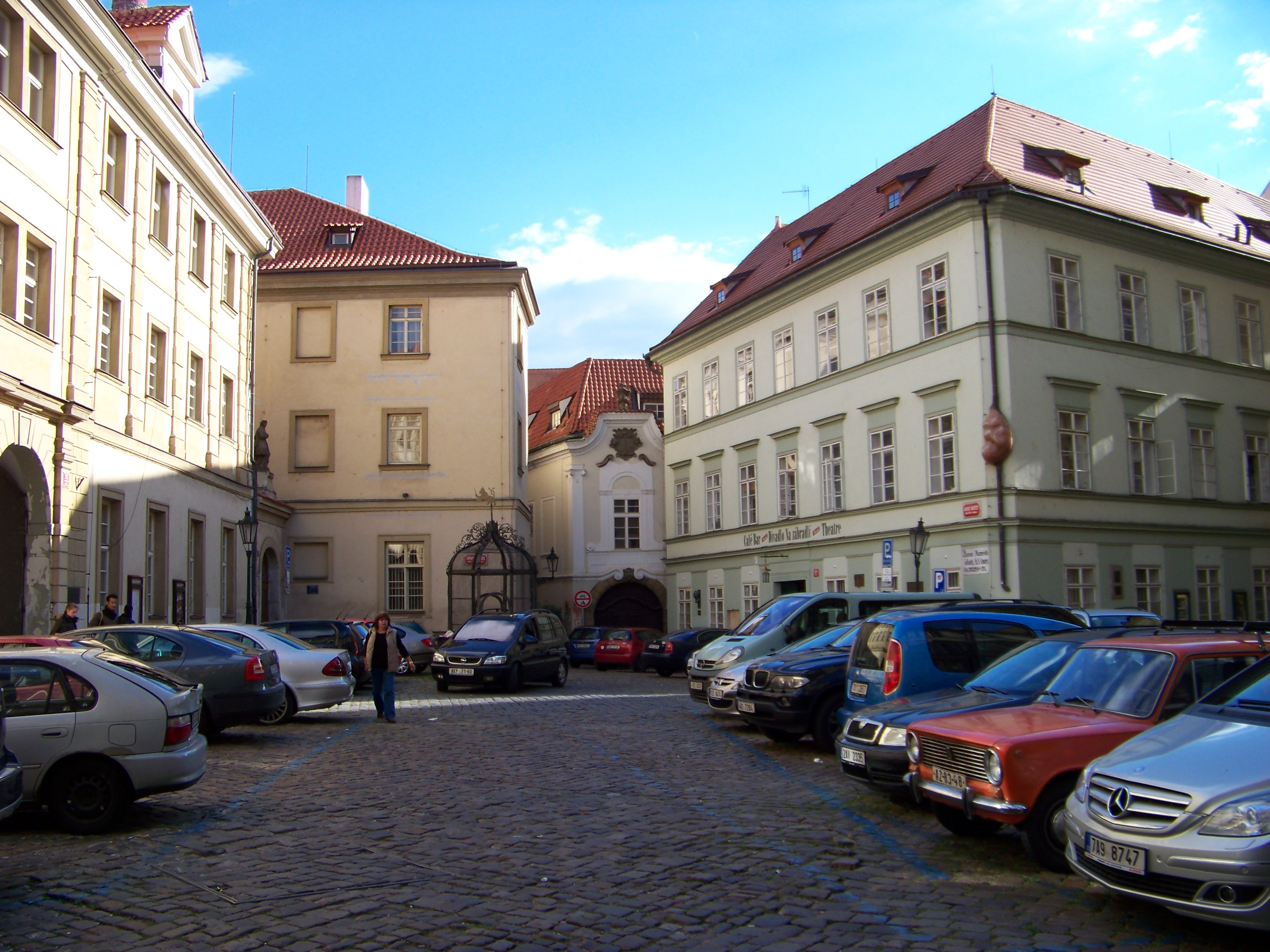 Prague-Old Town. Anenské náměstí. - OpenStreetMap (Info)